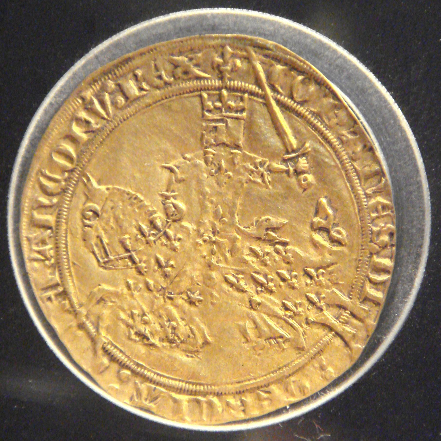 Franc_a_cheval_de_Jean_le_Bon_5_decembre_1360_or_3730mg